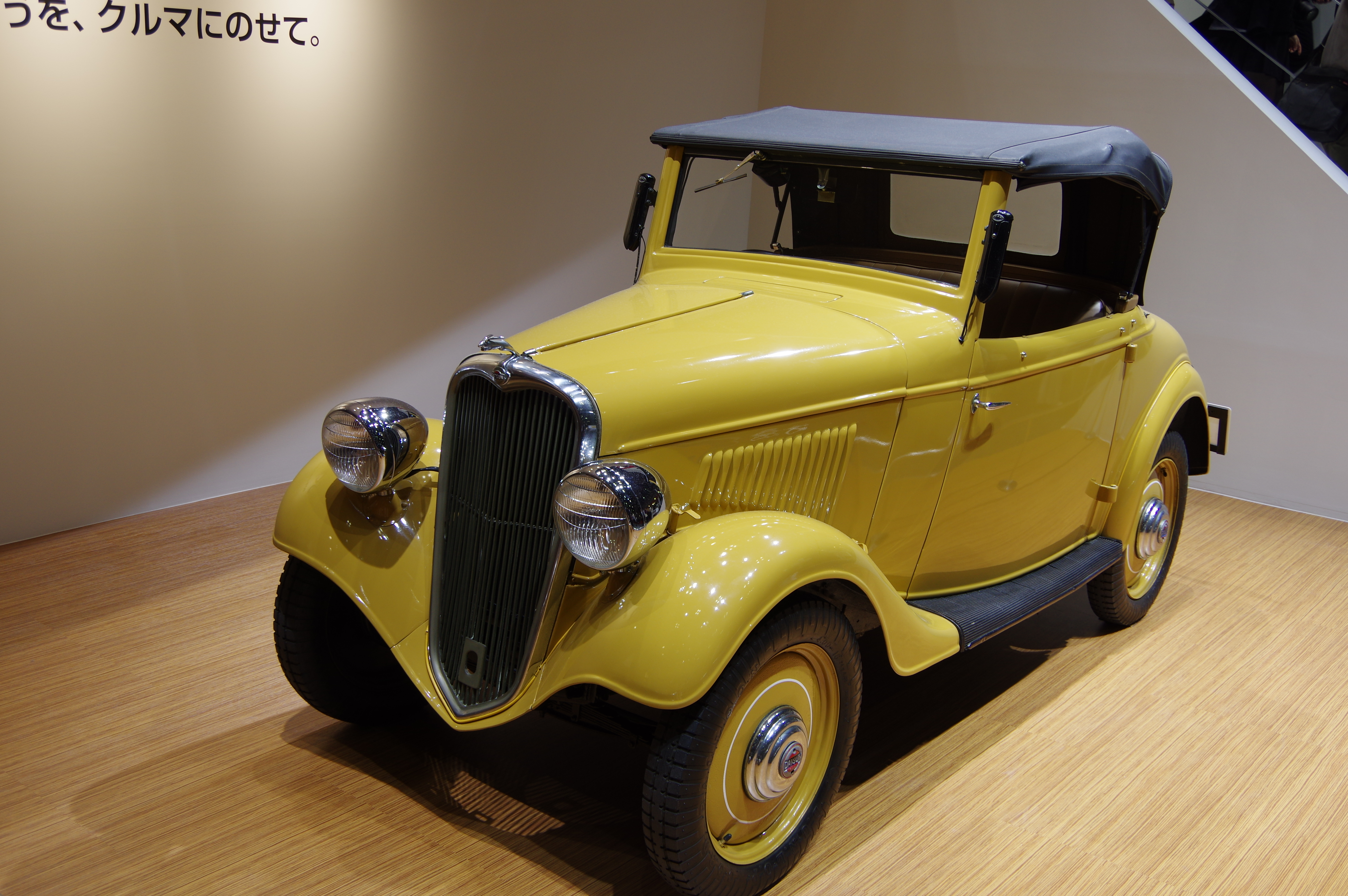 The 43rd Tokyo Motor Show 2013_PENTAX K-3_088